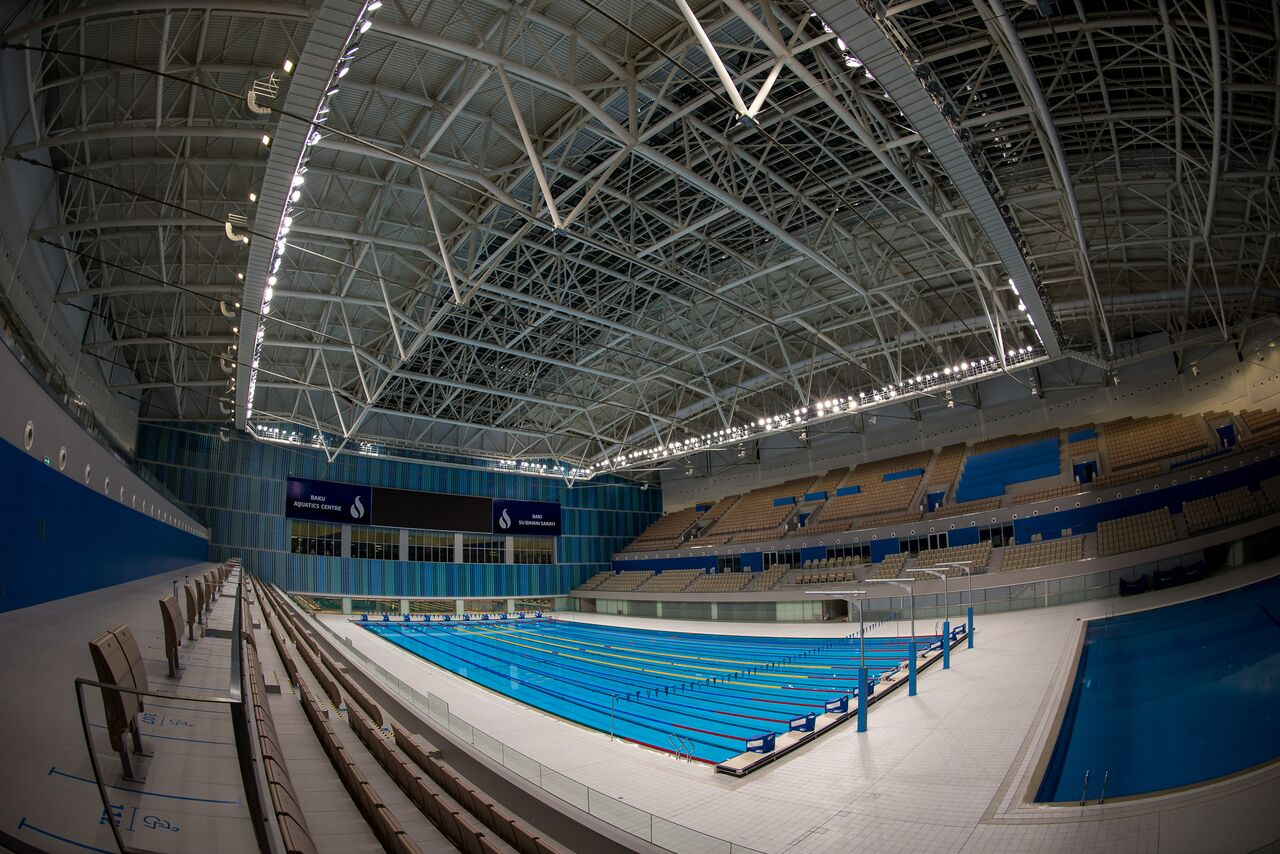 Swimming pool at Baku Aquatic Palace